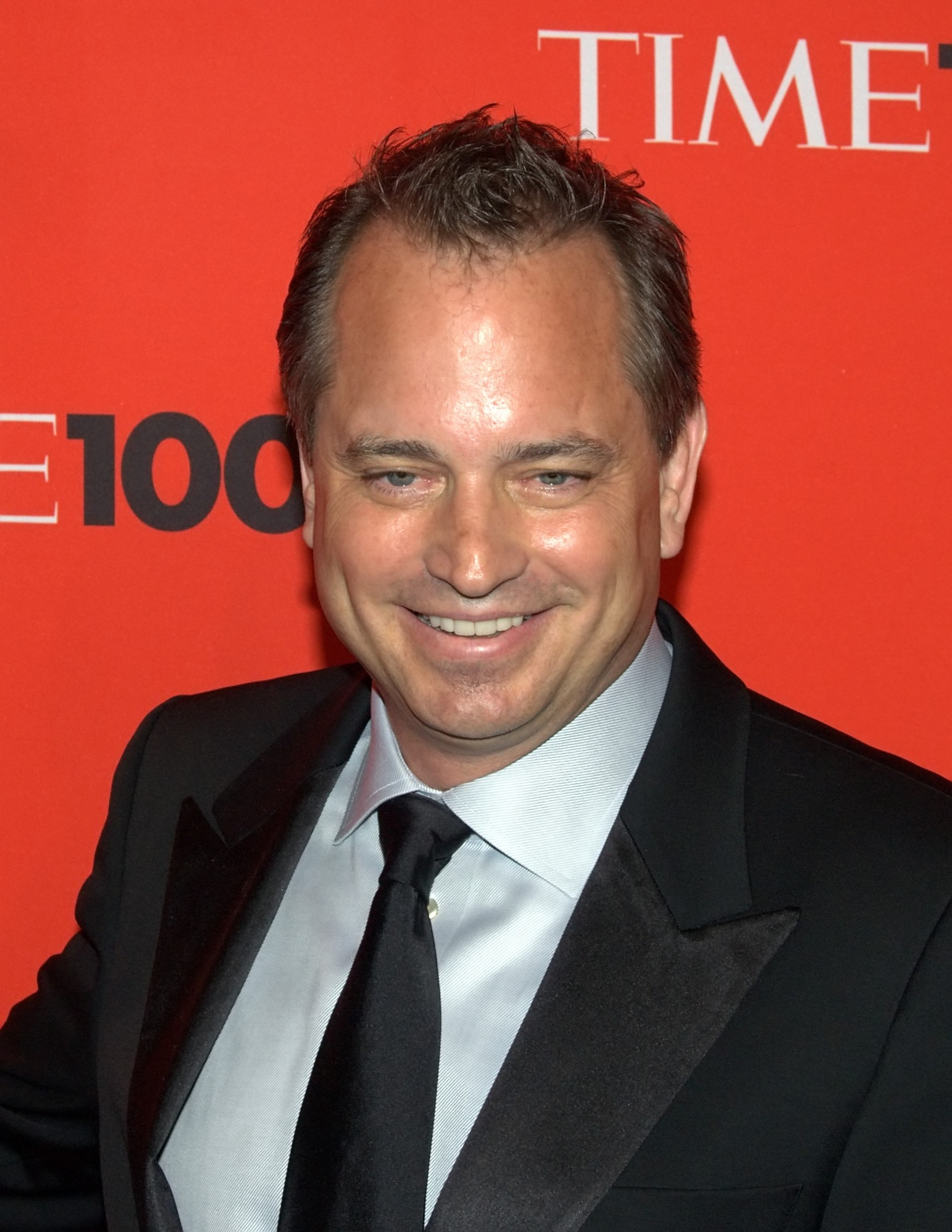 Mark Ford at the 2010 Time 100 Gala.